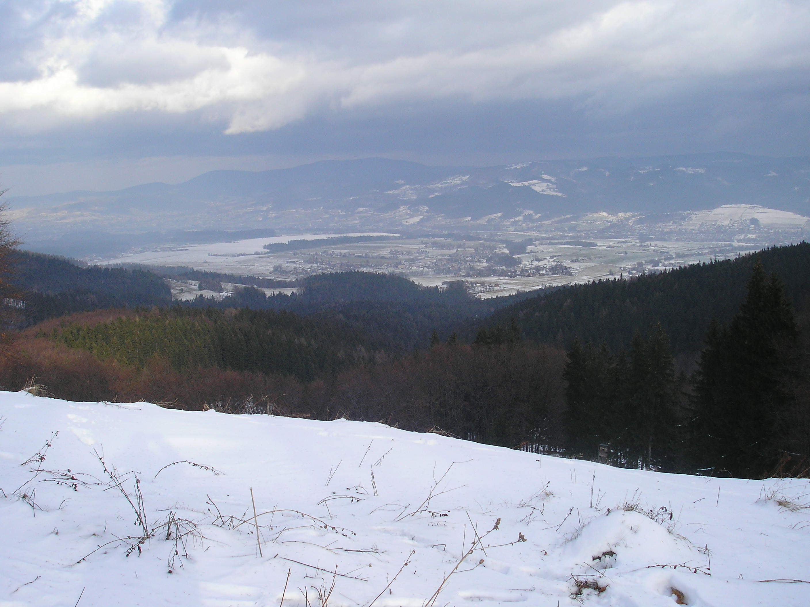 view from the mountain Mala Kykula in Beskydy, Czech Republic own picture, taken on 31/12/2006